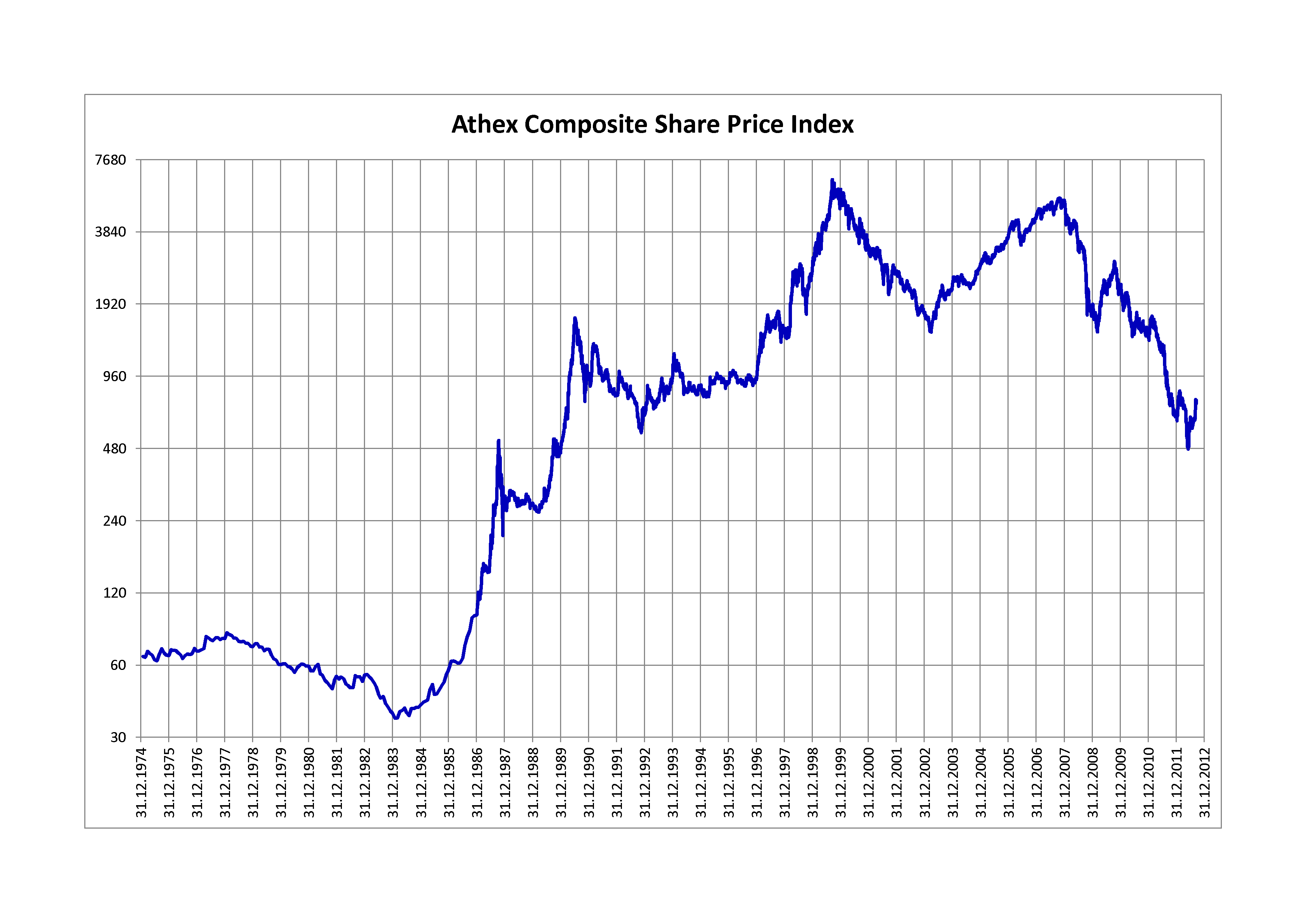 Athex Composite Share Price Index from December 1974 to September 2012 (daily Closings)